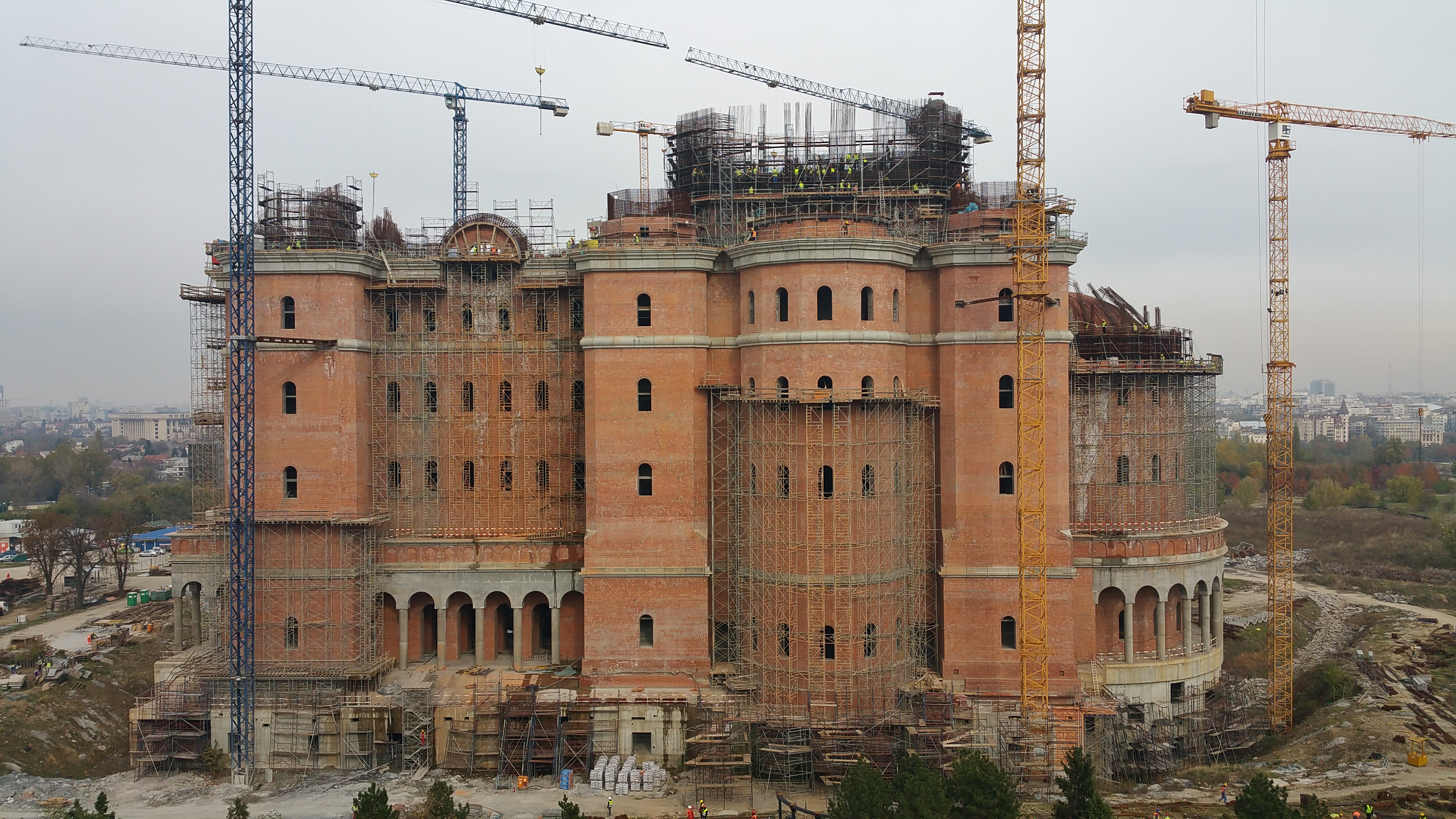 Romanian People's Salvation Cathedral, Bucharest [Nave_60 metres] (2017 November)